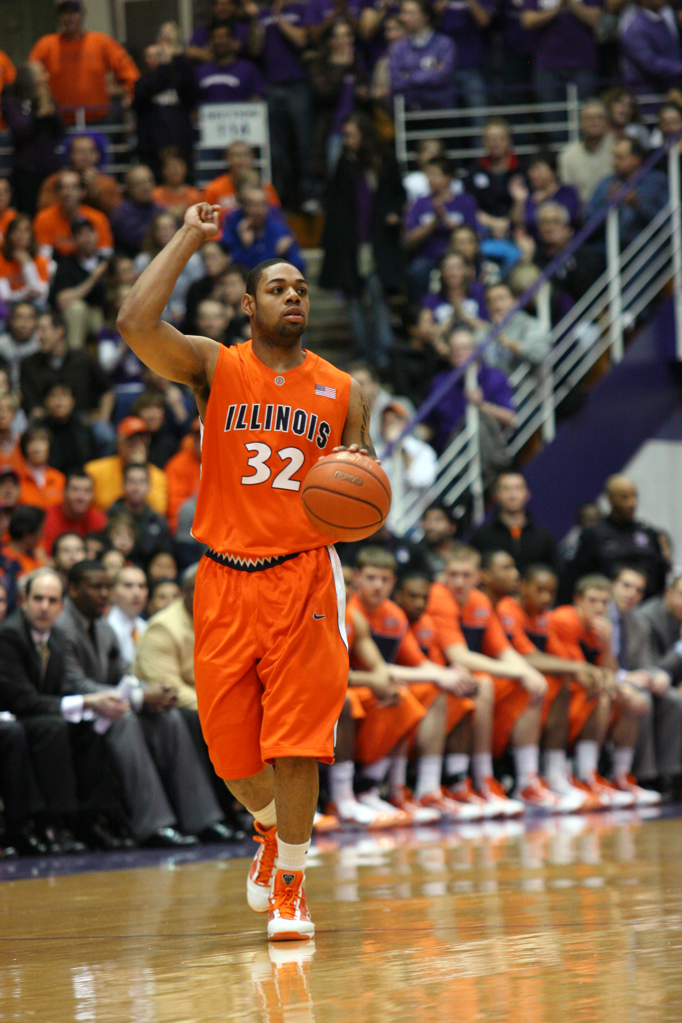 Demetri McCamey signals a play